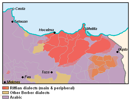 Map of Riffian-speaking areas in northern Morocco, derived from File:Carte des tribus du Rif.PNG - Own made map